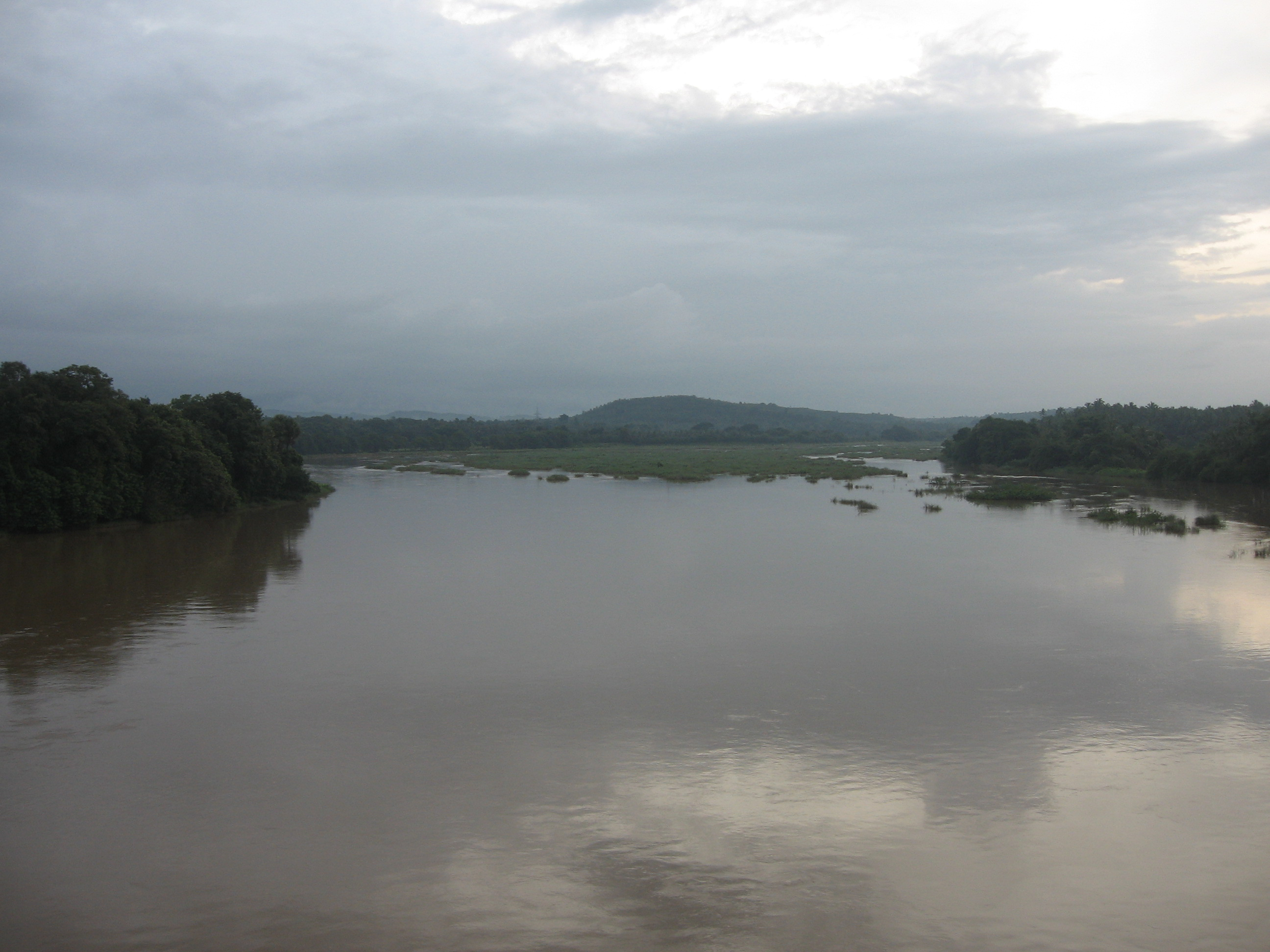 (Bharathapuzha river photo taken from the railway bridge at shoranur in the monsoon season of 2006,Raghu)